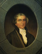 John Ledyard. Category:Dartmouth College alumni